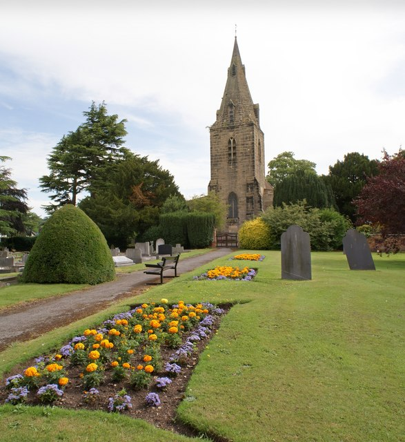 St. Helen's graveyard with summer blooms